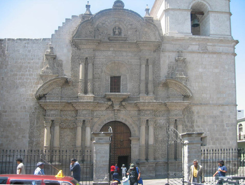 Arequipa (Peru), façade of the Jesuit Church.